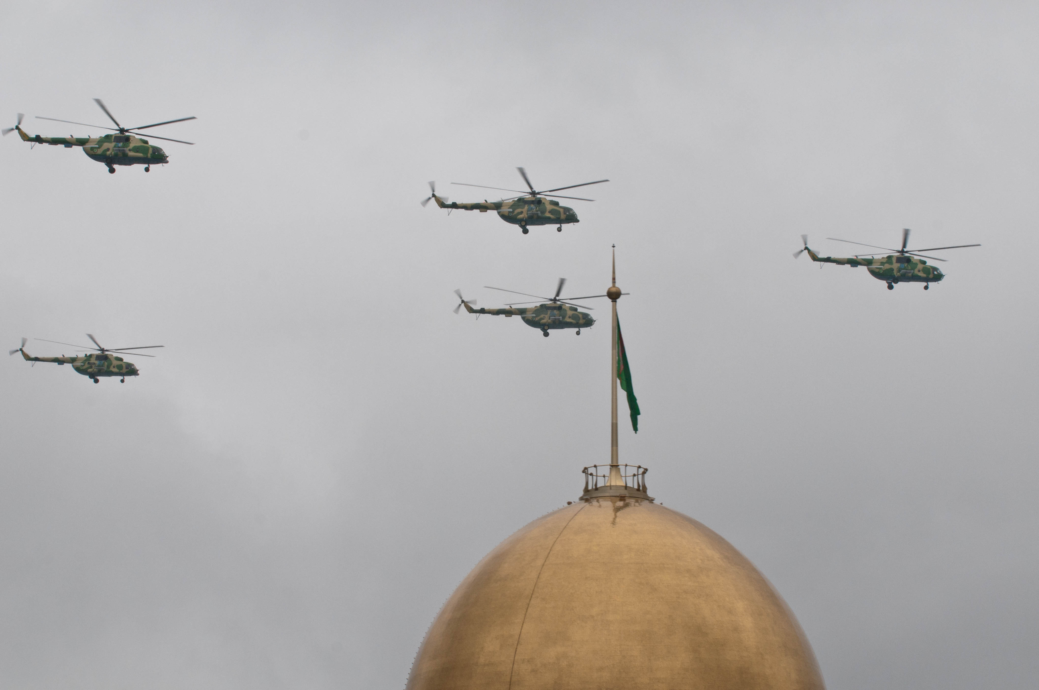 Celebrating the 20th year of independence in Turkmenistan